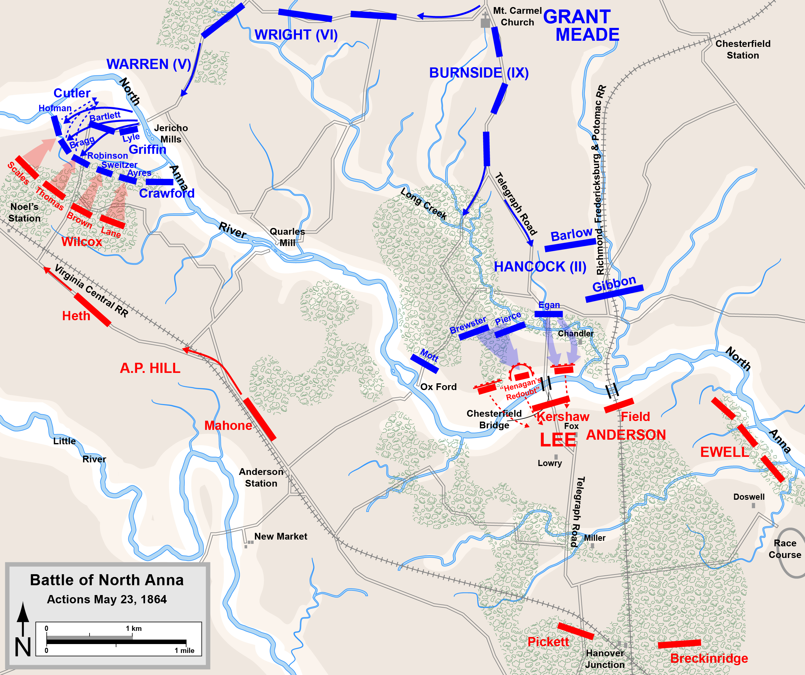 One of a series of four maps of the Battle of North Anna of the American Civil War, drawn in Adobe Illustrator CS5 by Hal Jespersen. Graphic source file is available at Attribution: Map by Hal Jespersen